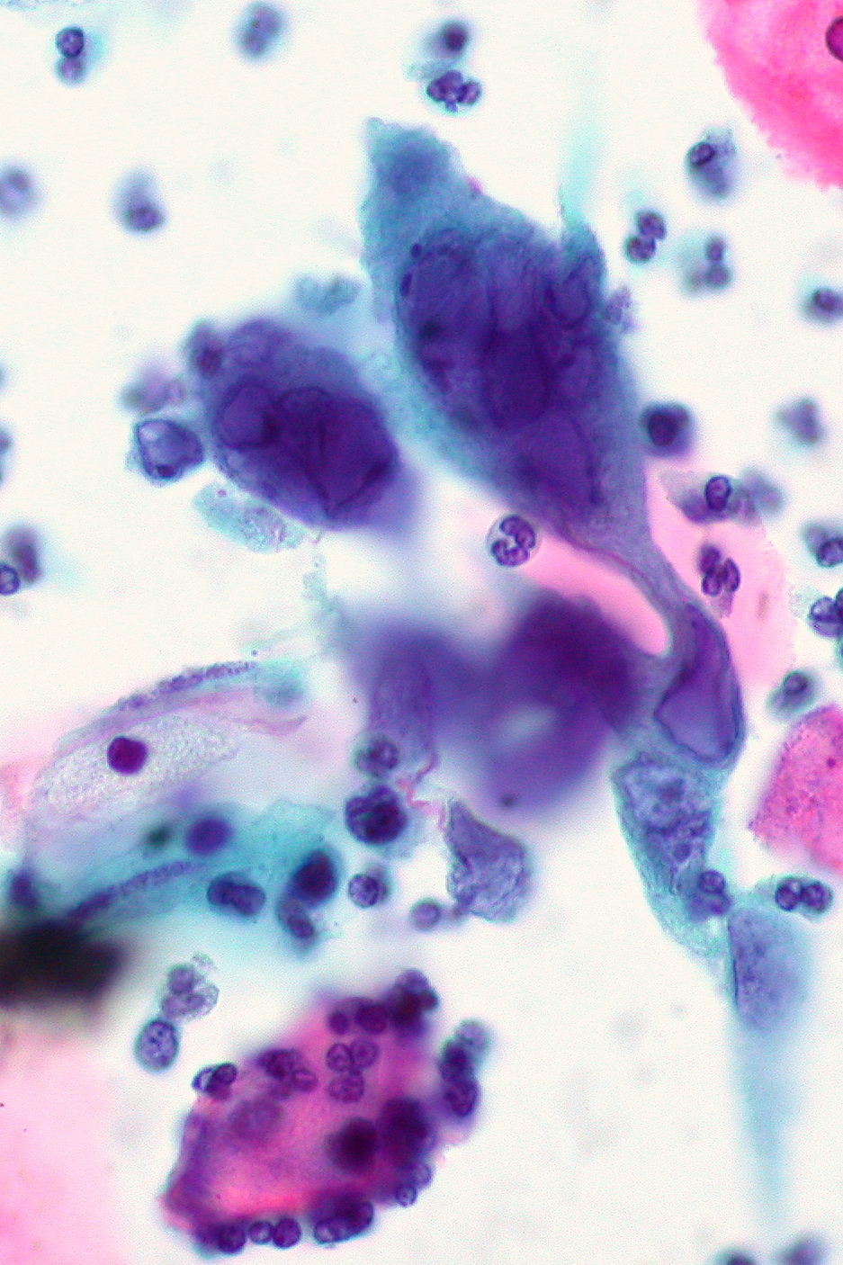 Herpes infection on ThinPrep Pap smear Pathological and histological images courtesy of Ed Uthman at flickr.